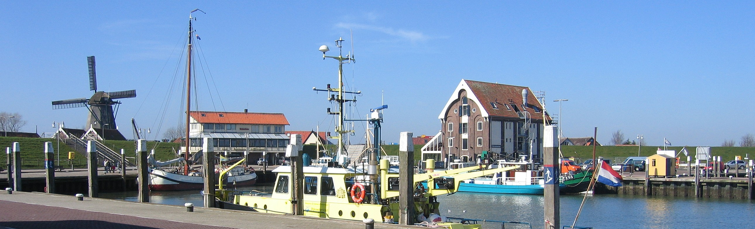 Harbour of Oudeschild, Texel, Netherlands. Wind mill and office visible.